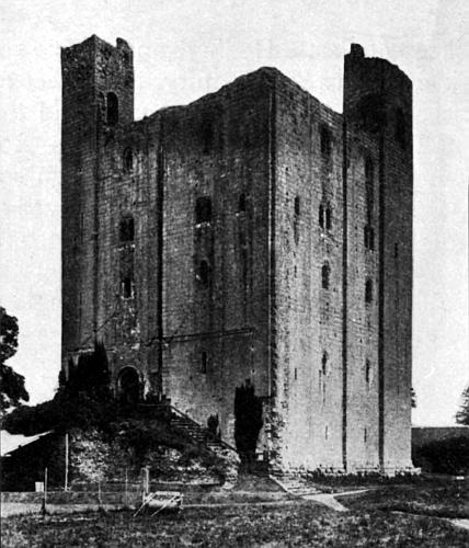 Castle Hedingham, Essex, England Former family seat of the Earls of Oxford, the Norman castle possesses the largest Norman arch in the UK